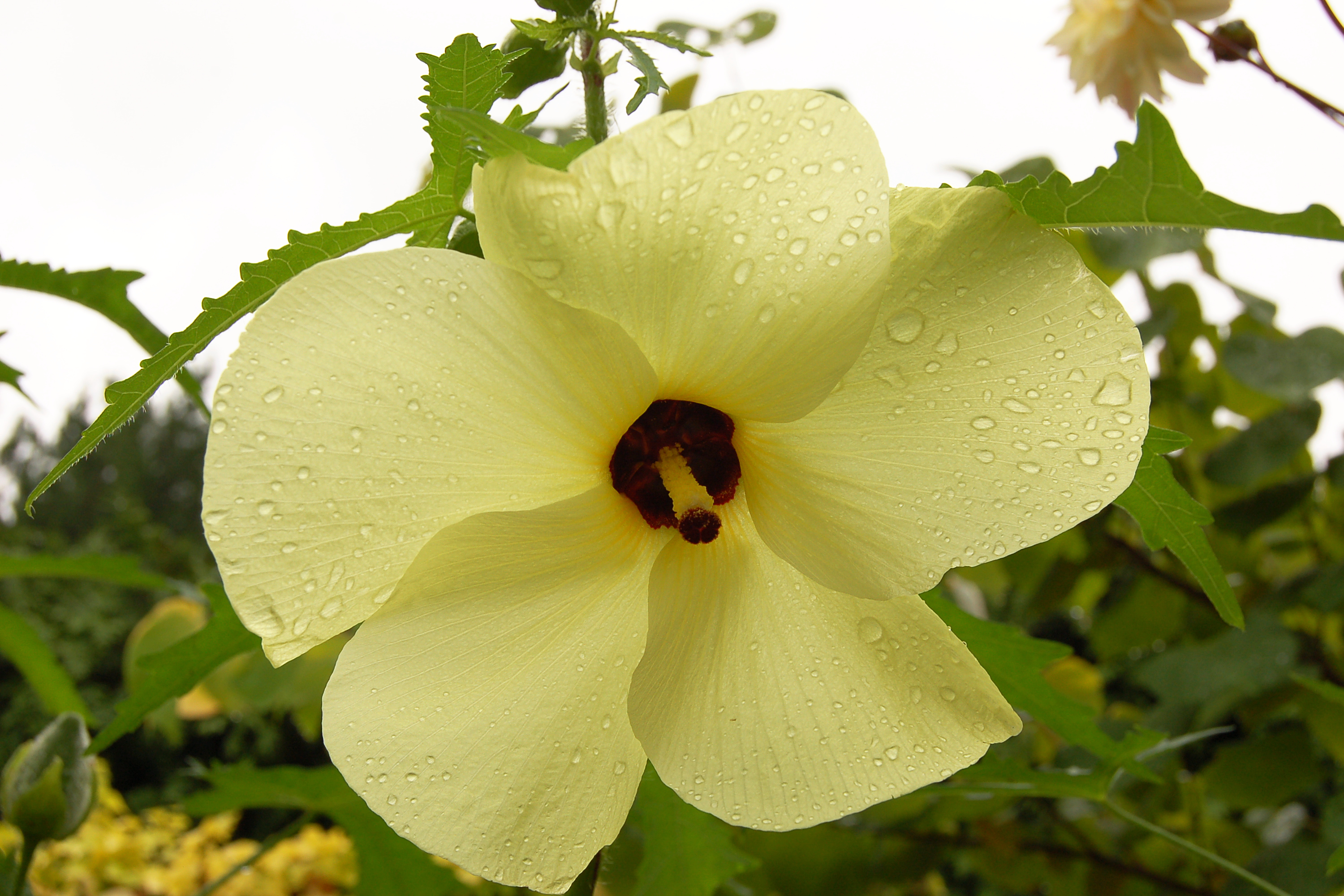 A picture of the flower of the Abelmoschus manihot en plant. Photo taken at the Chanticleer Garden where it was identified.